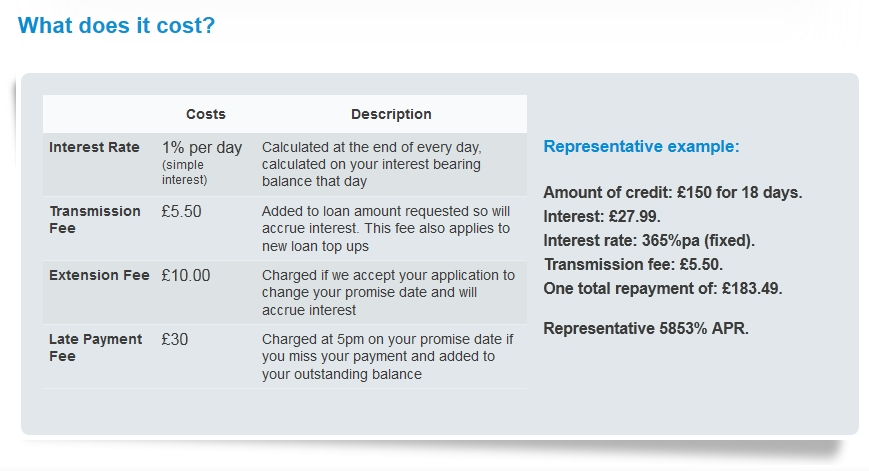 screenprint 3 February 2014.